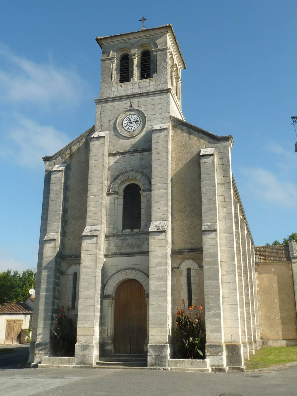 church St-Christophe at Chalais, Charente, France